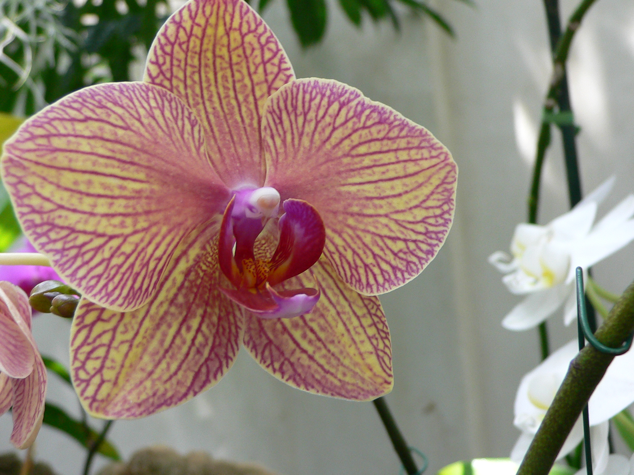 Pictures taken by myself at the United States National Botanical Garden, Washington DC, May 12, 2007.